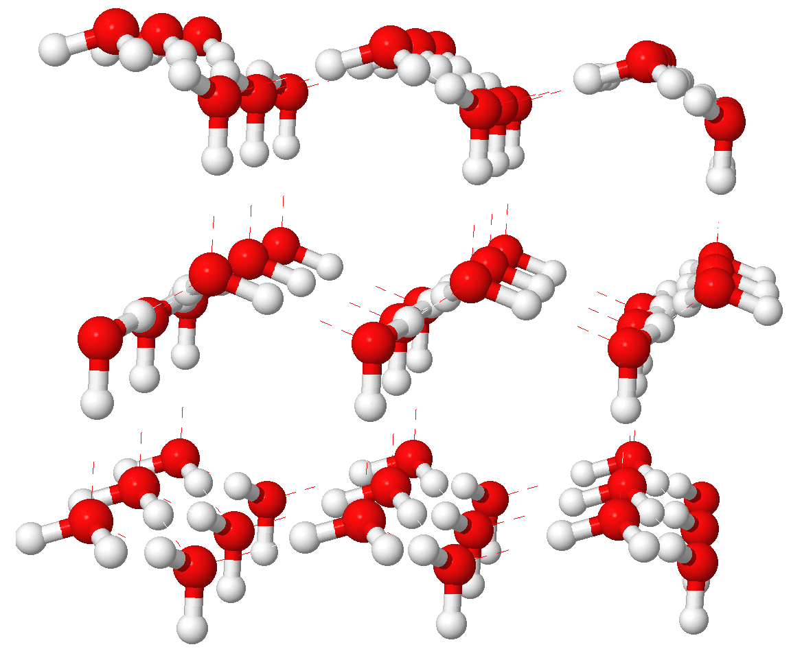 Ice XI, the proton ordered version of normal water ice. ( orthorhombic symmetry, space group Cmc2) Has a similar structure, but the protons are ordered, leading to non-zero dipole along the c-axis.